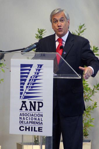 Sebastián Piñera in the presidential debate realized by the National Press Association in Talca, Chile.